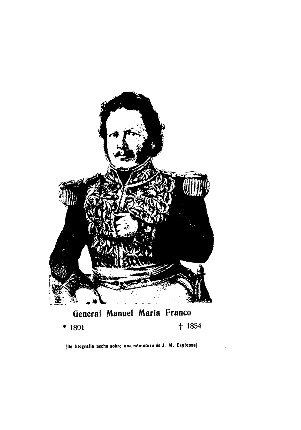 MM Franco